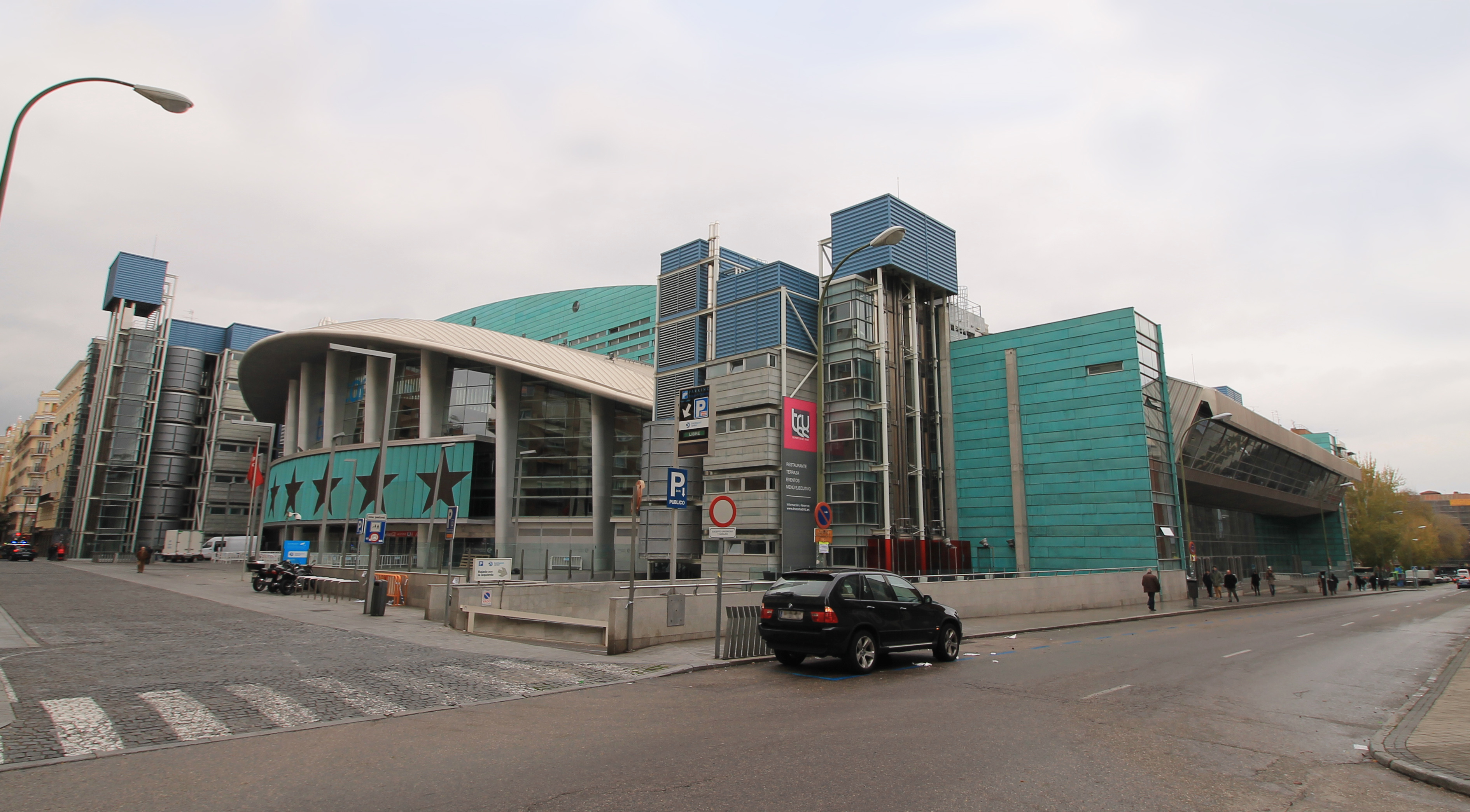 View of the Community-of-Madrid Sports Centre (Madrid, Spain) from the south-west angle.